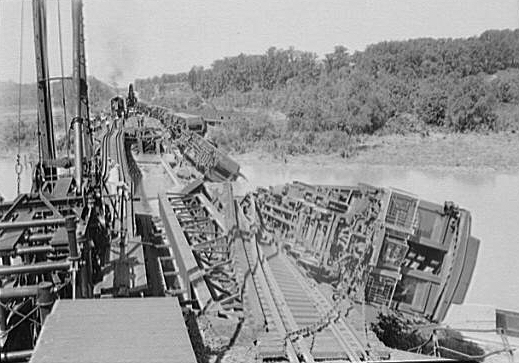 Wreck of the Crescent Limited train on the Pennsylvania Railroad Bridge over the Anacostia River in Washington, D.C., in the United States. Flood waters from a storm undermined the bridge's pilings, which led to the crash on August 24, 1933. The engineer died in the wreck.